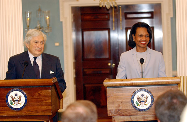 Secretary Rice and Special Envoy for Gaza Disengagement James Wolfensohn speak to the press after their meeting.